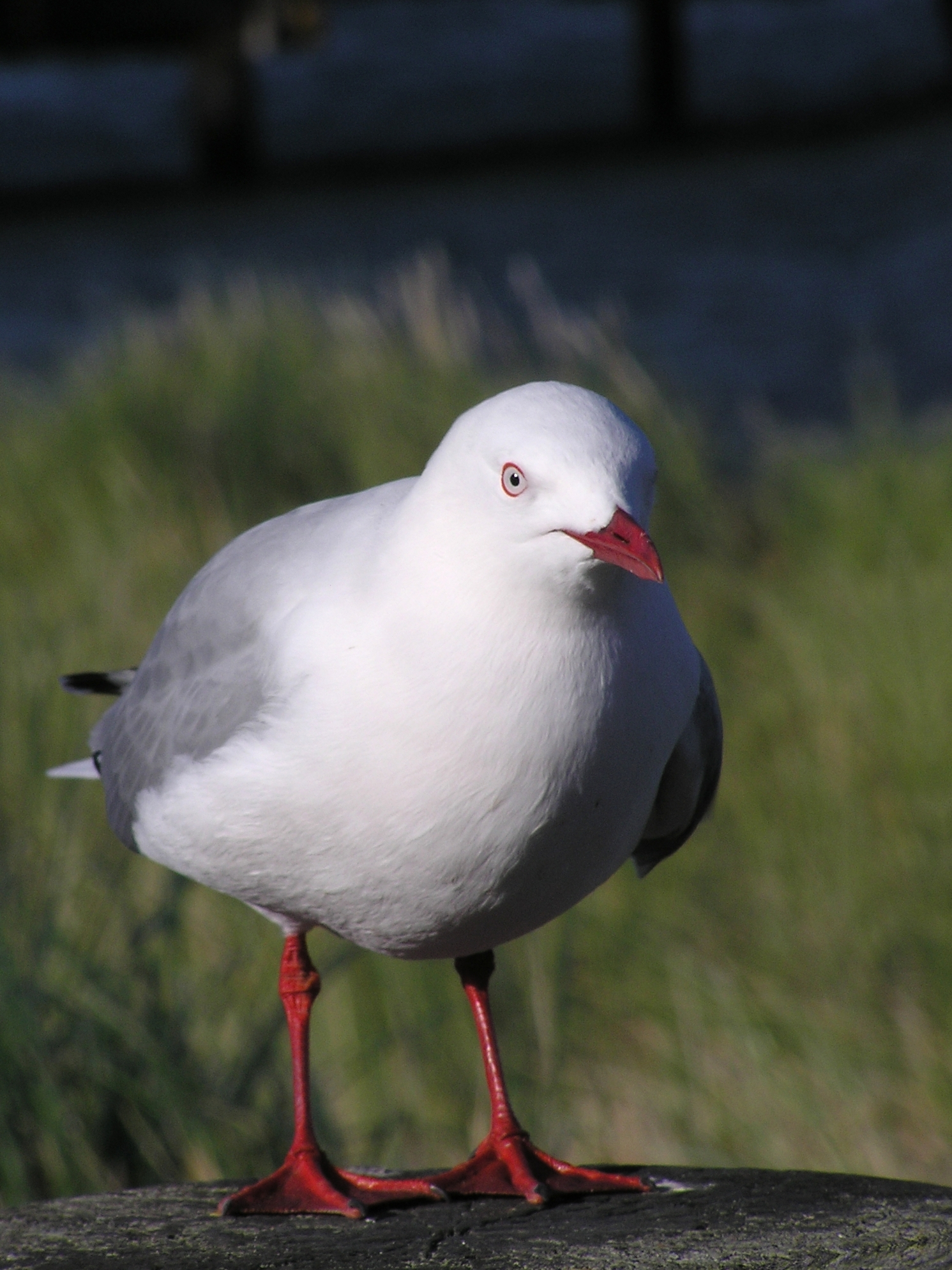 Red billed gull in Wellington Harbour, Wellington, New Zealand.